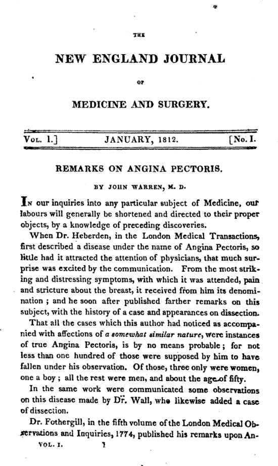 Cover of the first edition of the New England Journal of Medicine and Surgery.